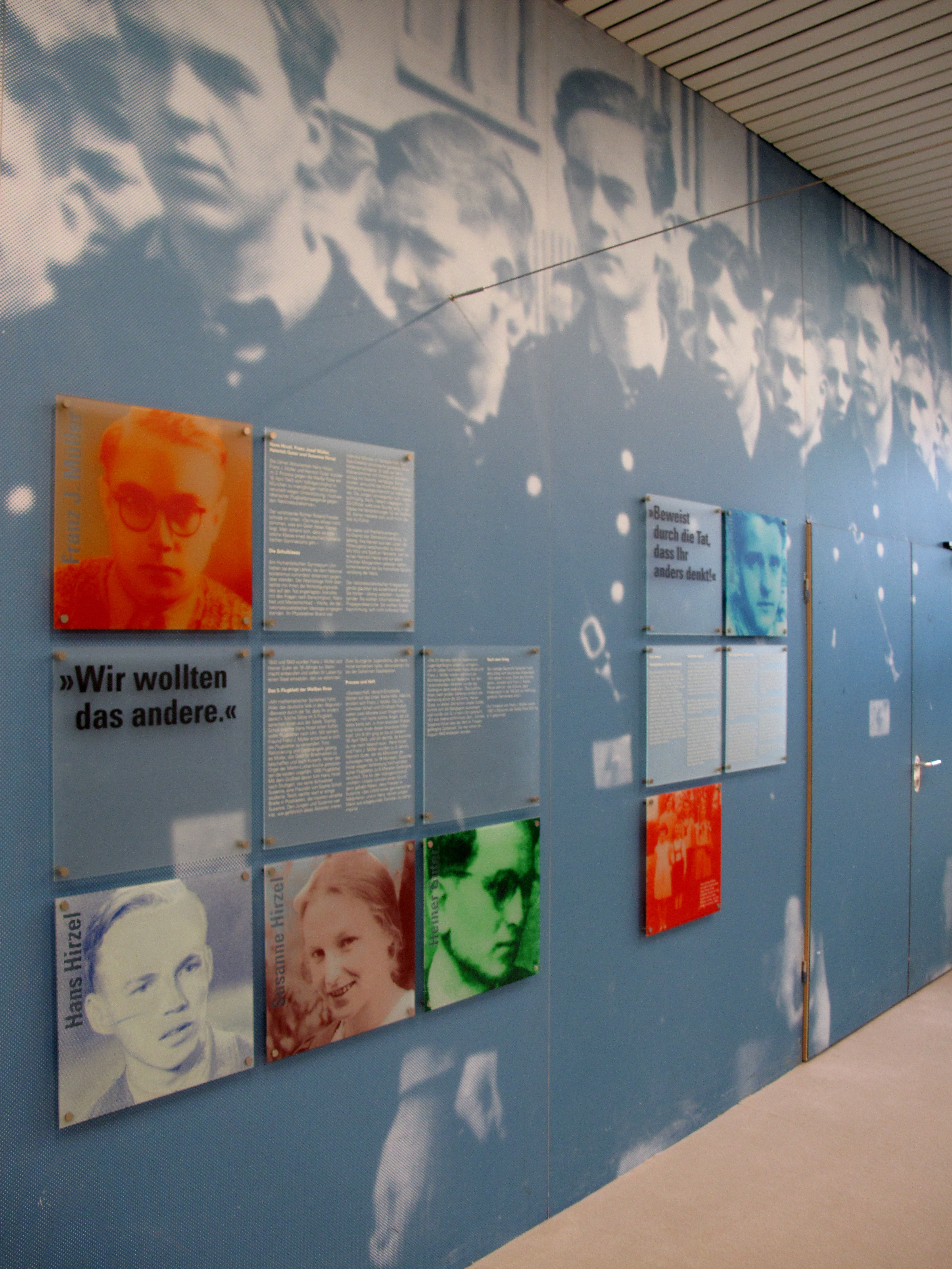 The Ulmer DenkStätte Weiße Rose is in the foyer of the EinsteinHaus, the headquarters of the Ulmer Volkshochschule (vh Ulm) (Adult Education Centre of Ulm) is a memorial for young people from Ulm who were in the resistance against the Nazi-Regime between 1933 and 1945 – amoung them also Hans and Sophie Scholl.